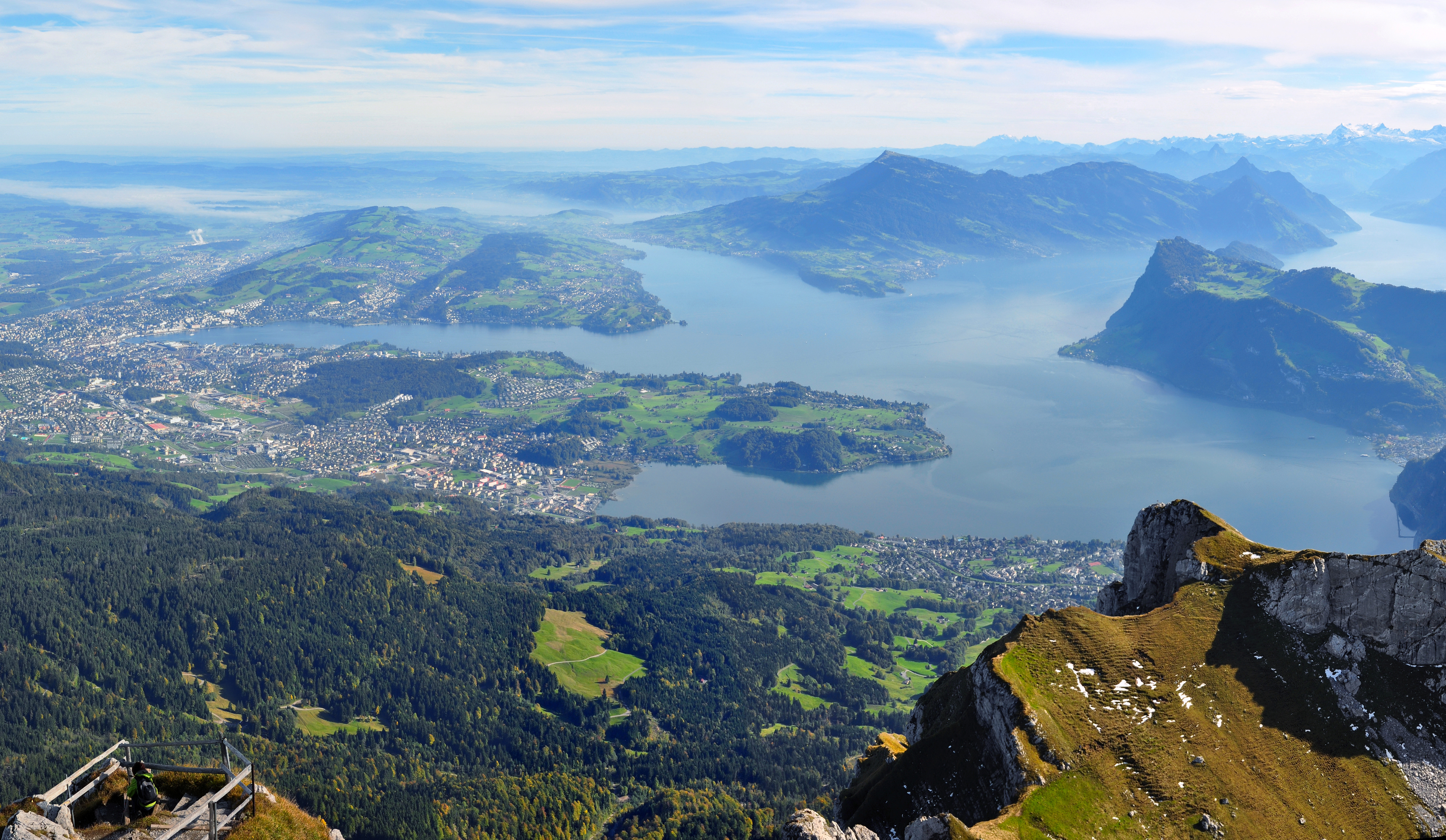 panoramic view (to the northeast) on the Lake Lucerne from the summit Esel (2118 m), the second highest peak of the mountain range "Pilatus", which is located in the southwest of Lucerne